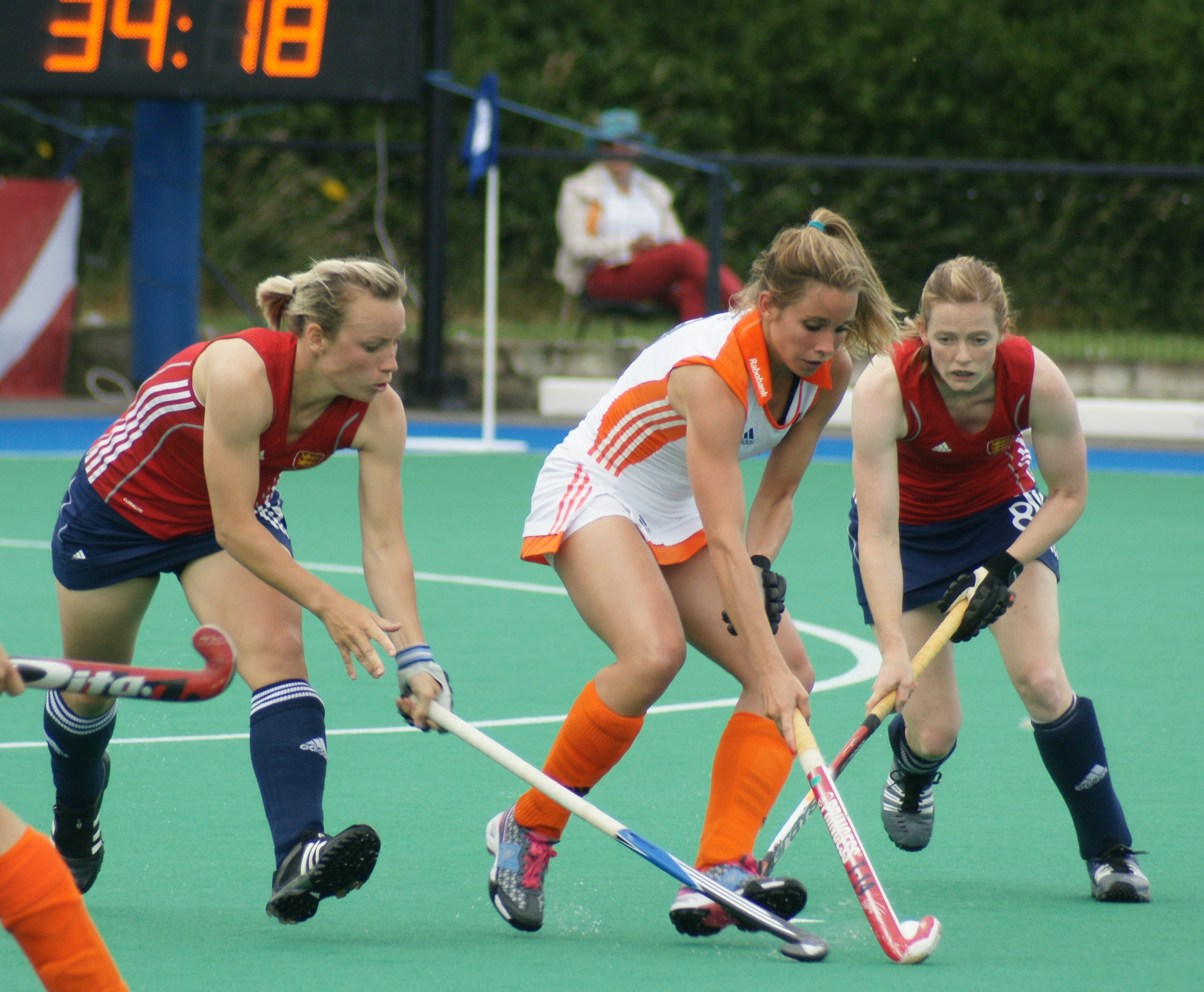 Dutch player Ellen Hoog shielding the ball during the 2009 Champions Trophy match between the Netherlands and England on the 11th of July 2009 in Sydney, Australia.